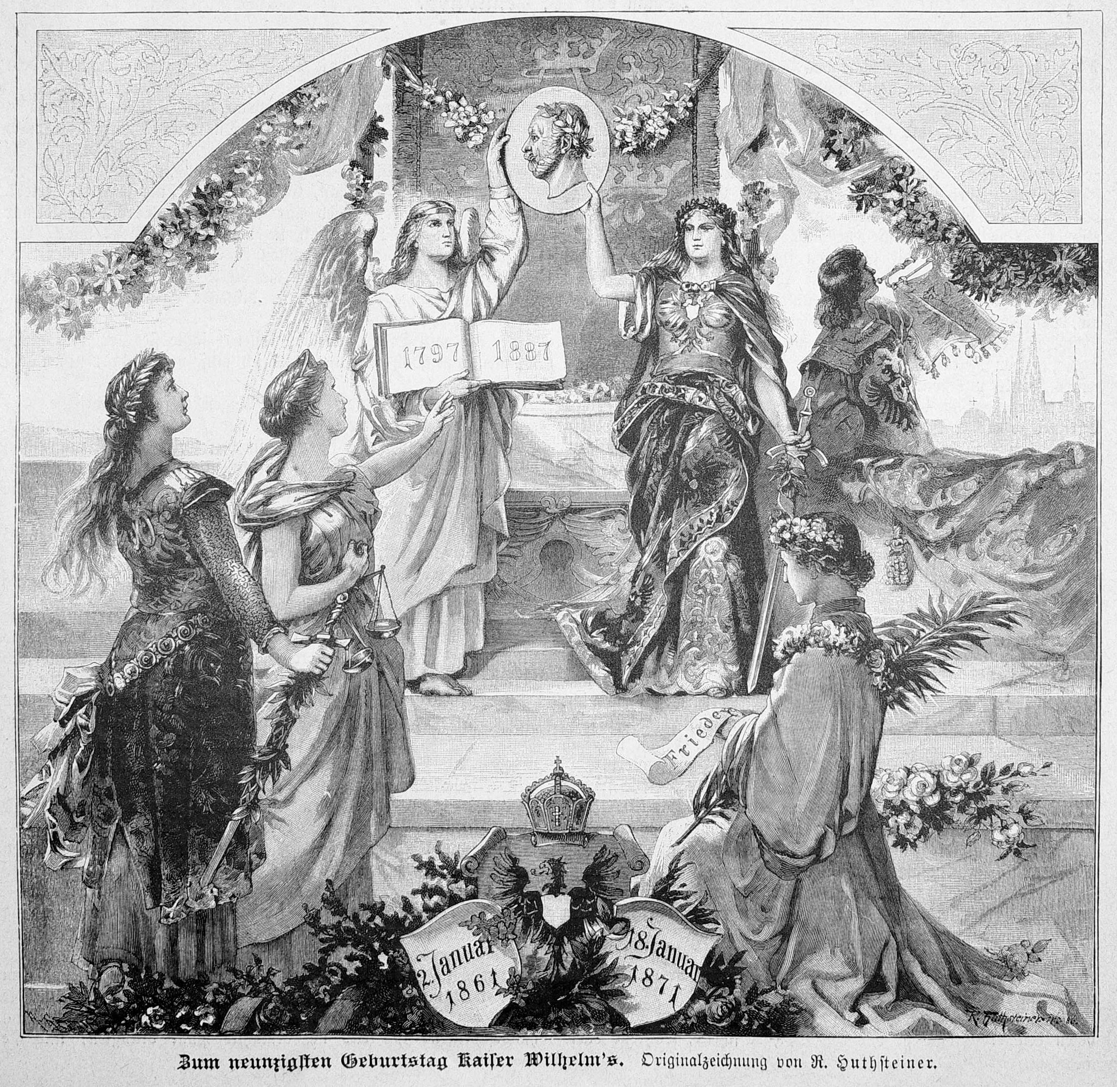 caption: "Zum neunzigsten Geburtstag Kaiser Wilhelm’s. Originalzeichnung von R. Huthsteiner."